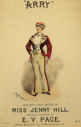 Cover of sheet music of Jenny Hill's song Arry